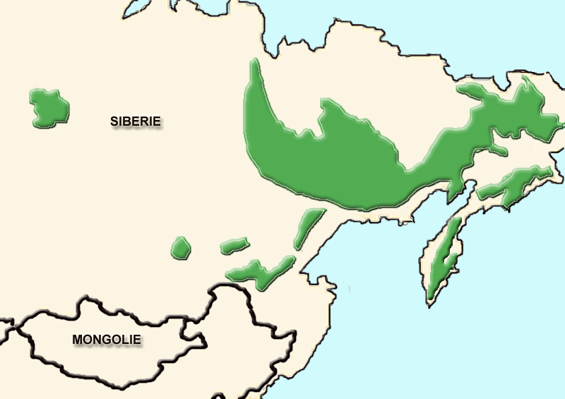 Map of Ovis nivicola habitat